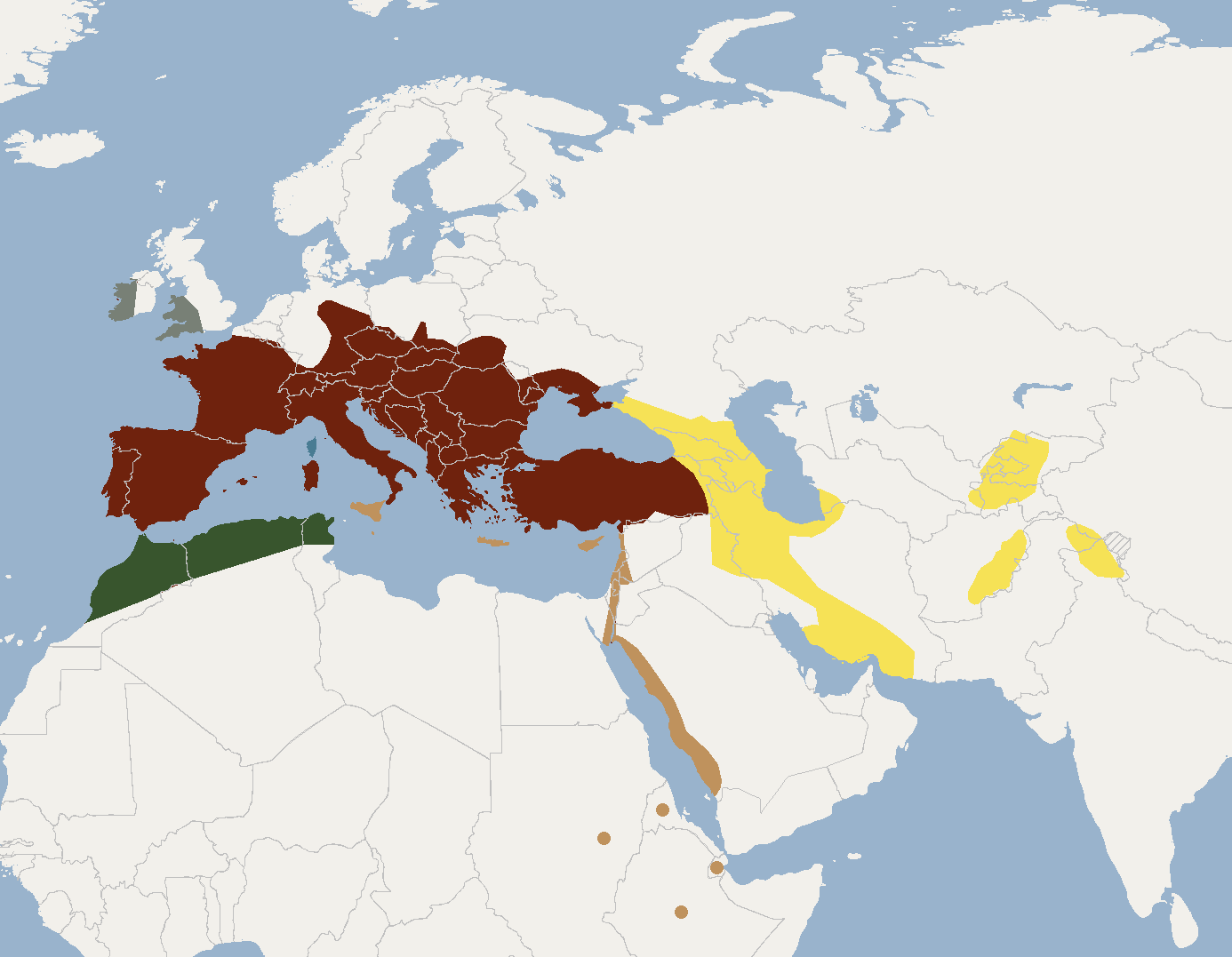 According to and Happold & Happold, 2013 R.h.hipposideros R.h.escalerae R.h.majori R.h.midas R.h.minimus R.h.minutus